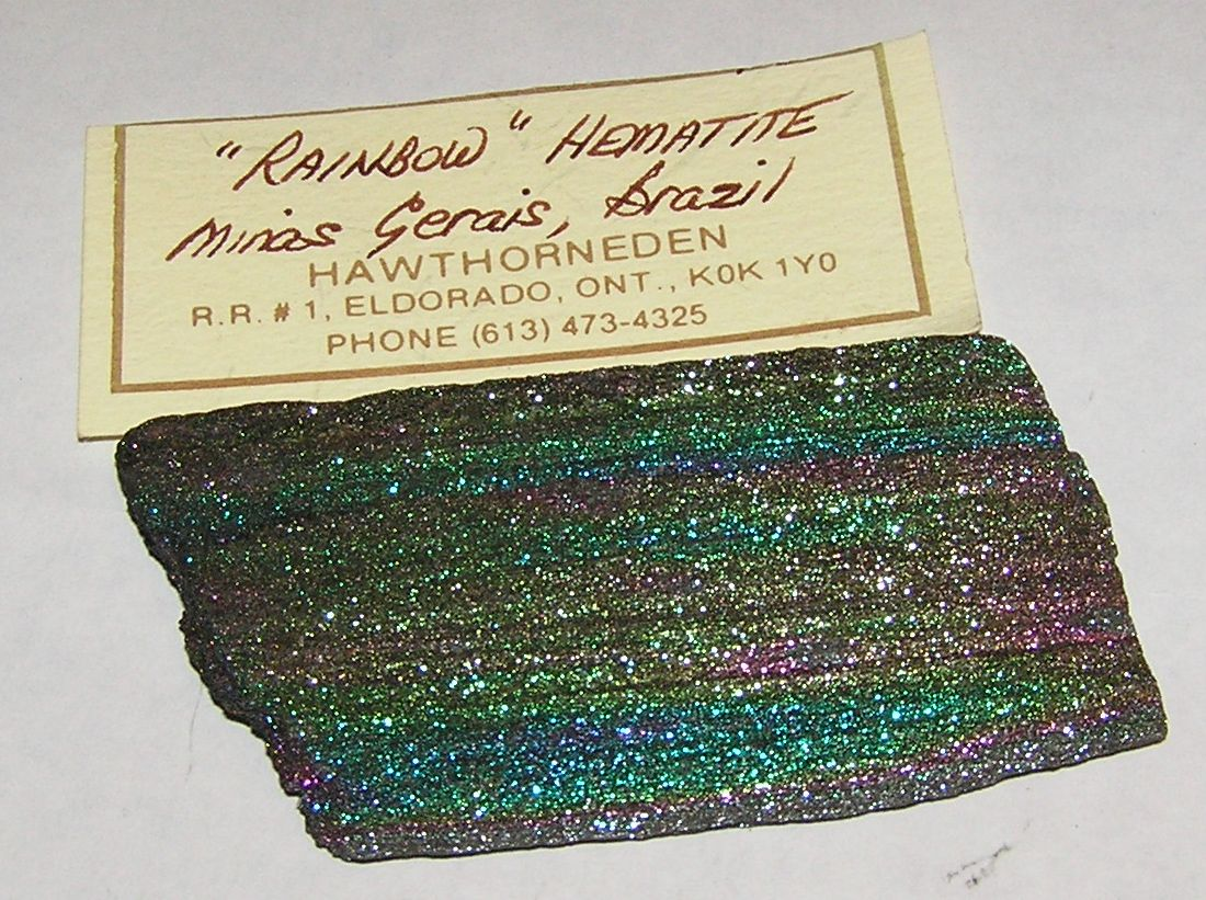 Rainbow Hematite from Minas Gerais, Brazil. Photo by Yannick Trottier, 2005.